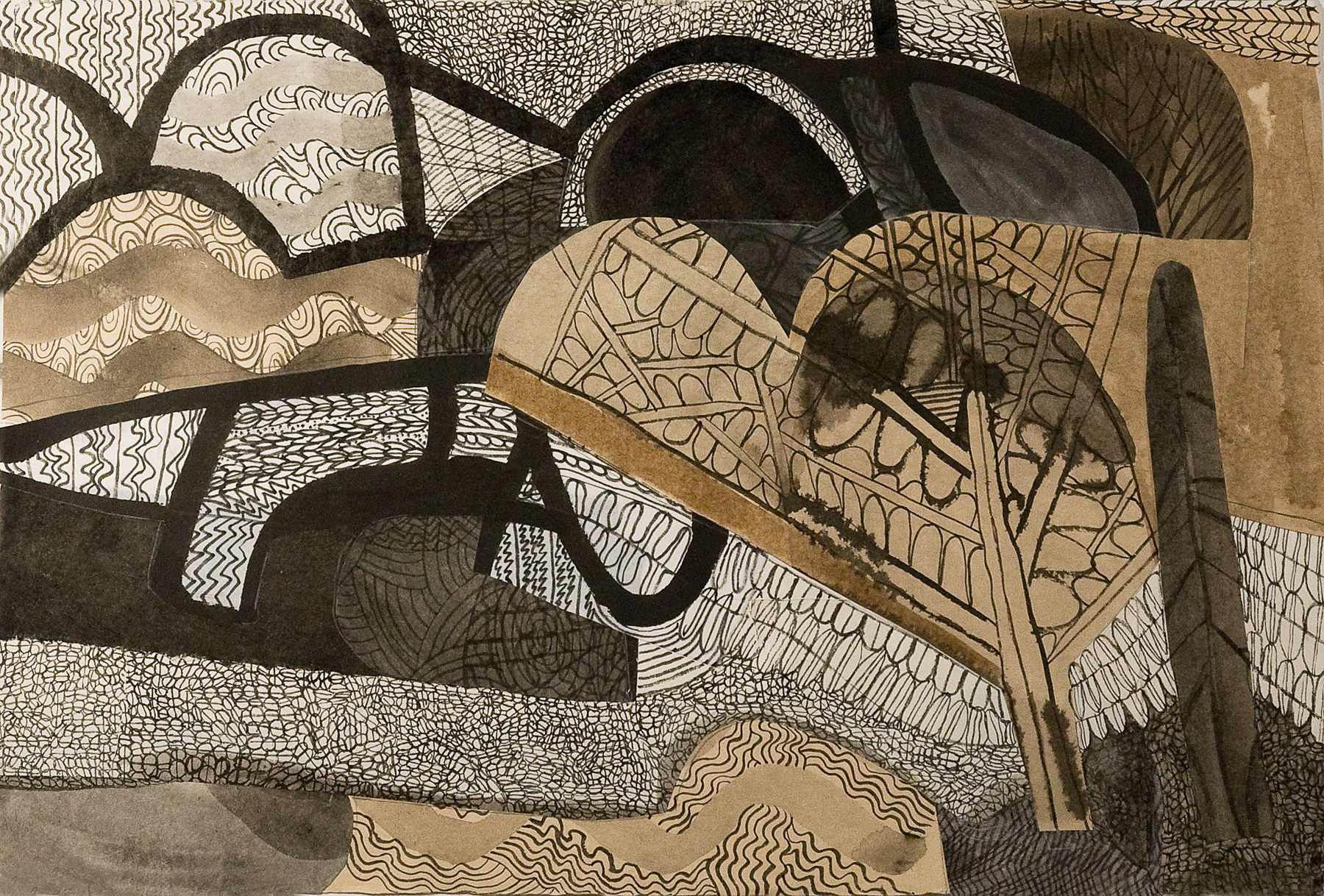 2010 20.5” x 30”